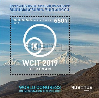 World Congress on Information Technology in Yerevan